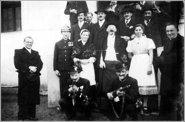 The felsőszölnökian actor company in 1936